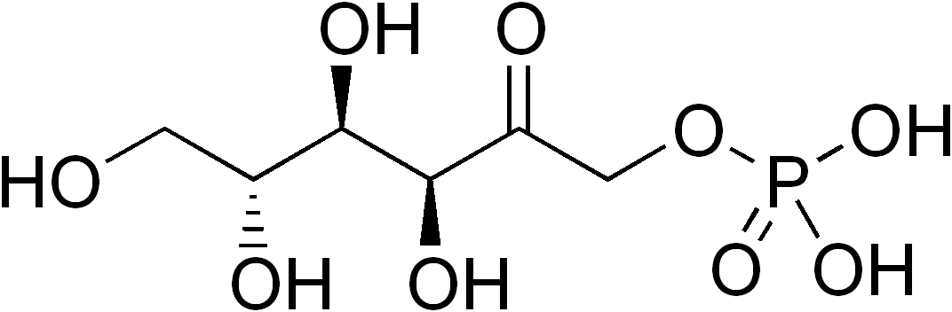 chemical structure of fructose-1-phosphate created with ChemDraw